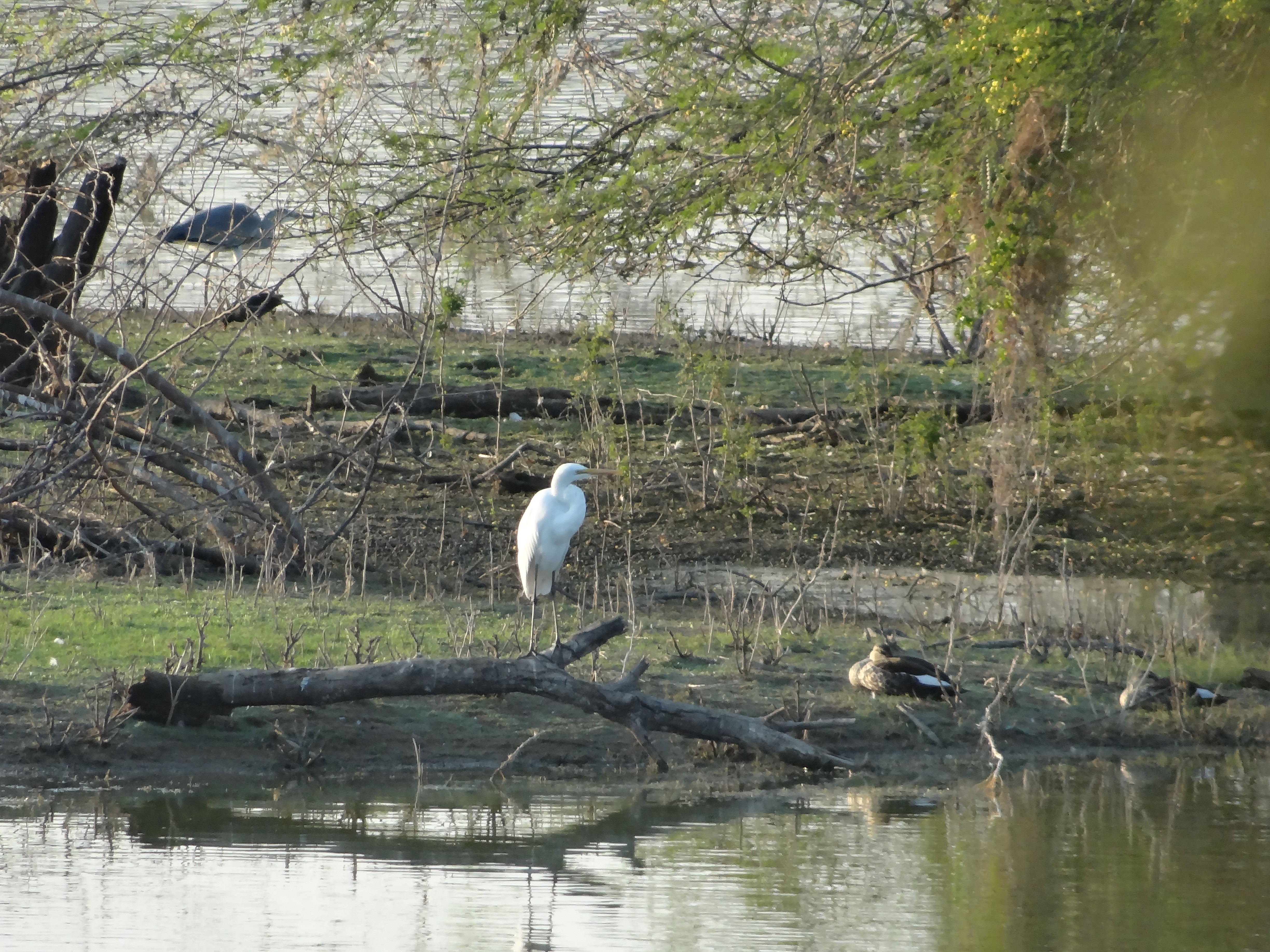 birds at vellode bird sanctuary picture by Dr.shivram sagar